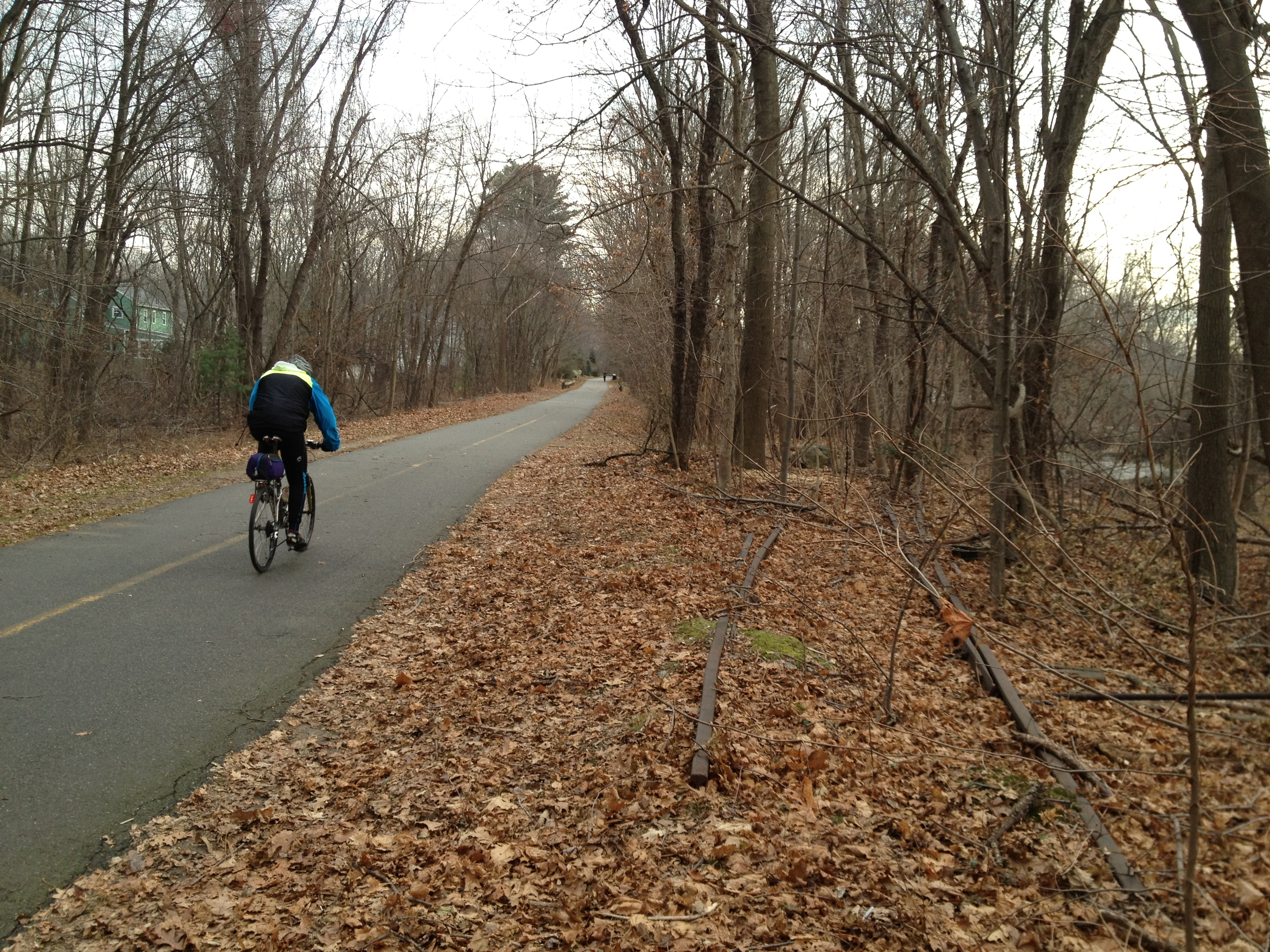 Vestigial railroad tracks along side the Minuteman Bikeway in Lexington, Massachusetts.